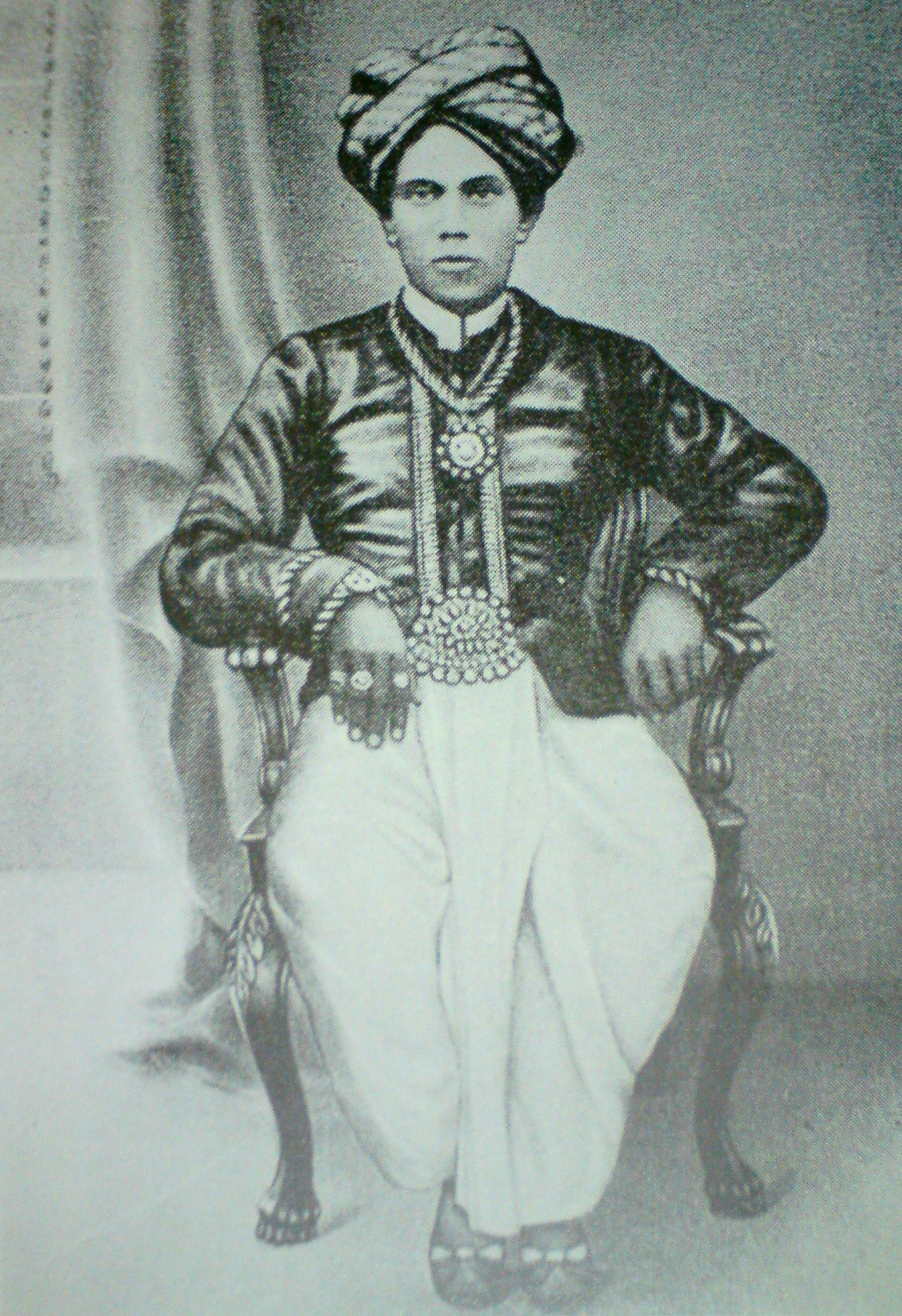 This is the photo of Tiruvarudi Vaihunda Nadan,the Nadar Zamindar of Nattathi. It is required for the nadar article.